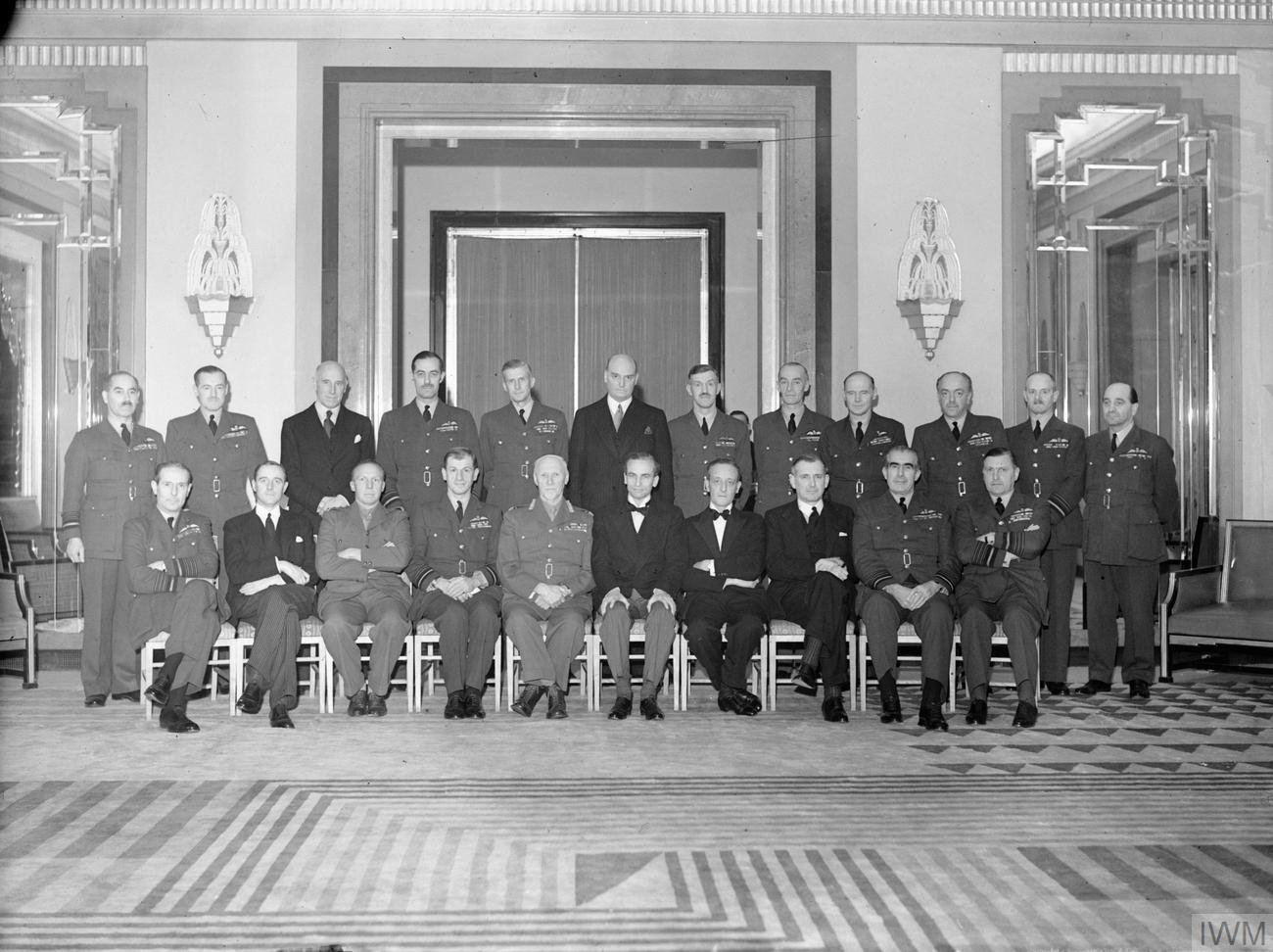 The Air Council assembled in the foyer of Adastral House, London, on the occasion of a visit by Field Marshal Smuts. Left to right, (seated): Air Chief Marshal Sir Philip Joubert de la Ferte, Air Officer Commanding-in-Chief, Coastal Command Lord Sherwood, Parliamentary Under Secretary of State for Air (Lords) Captain J D Smuts Air Chief Marshal Sir Charles F A Portal, Chief of the Air Staff Field Marshal the Rt Hon J C Smuts, Premier of South Africa The Rt Hon Sir Archibald Sinclair, Secretary of State for Air Mr S F Waterson, High Commissioner for South Africa Captain the Rt Hon H H Balfour, Parliamentary Under Secretary of State for Air Air Chief Marshal Sir Christopher L Courtney, Air Member for Supply and Organisation Air Chief Marshal Sir Sholto Douglas, Air Officer Commanding in Chief, Fighter Command Left to right, (standing): Air Marshal A G R Garrod, Air Member for Training Air Marshal Sir John T Babington, Air Officer Commanding-in-Chief, Technical Training Command Sir Harold G Howitt, an Additional Member of the Air Council Air Marshal F J Linnell, Controller of Research and Development in the Ministry of Aircraft Production Air Chief Marshal Sir Edgar R Ludlow-Hewitt, an Inspector General of the RAF Sir Arthur Street, Permanent Under Secretary of State for Air Air Marshal P Babington, Air Officer Commanding-in-Chief, Flying Training Command Air Marshal D G Donald, Air Officer Commanding-in-Chief, Maintenance Command Air Marshal Sir Bertine E Sutton, Air Member for Personnel Air Marshal Sir Arthur S Barratt, Air Officer Commanding-in-Chief, Army Co-operation Command Air Marshal Sir Leslie Gossage, Air Officer Commanding, Balloon Command Air Vice Marshal C E H Medhurst, Vice Chief of the Air Staff.